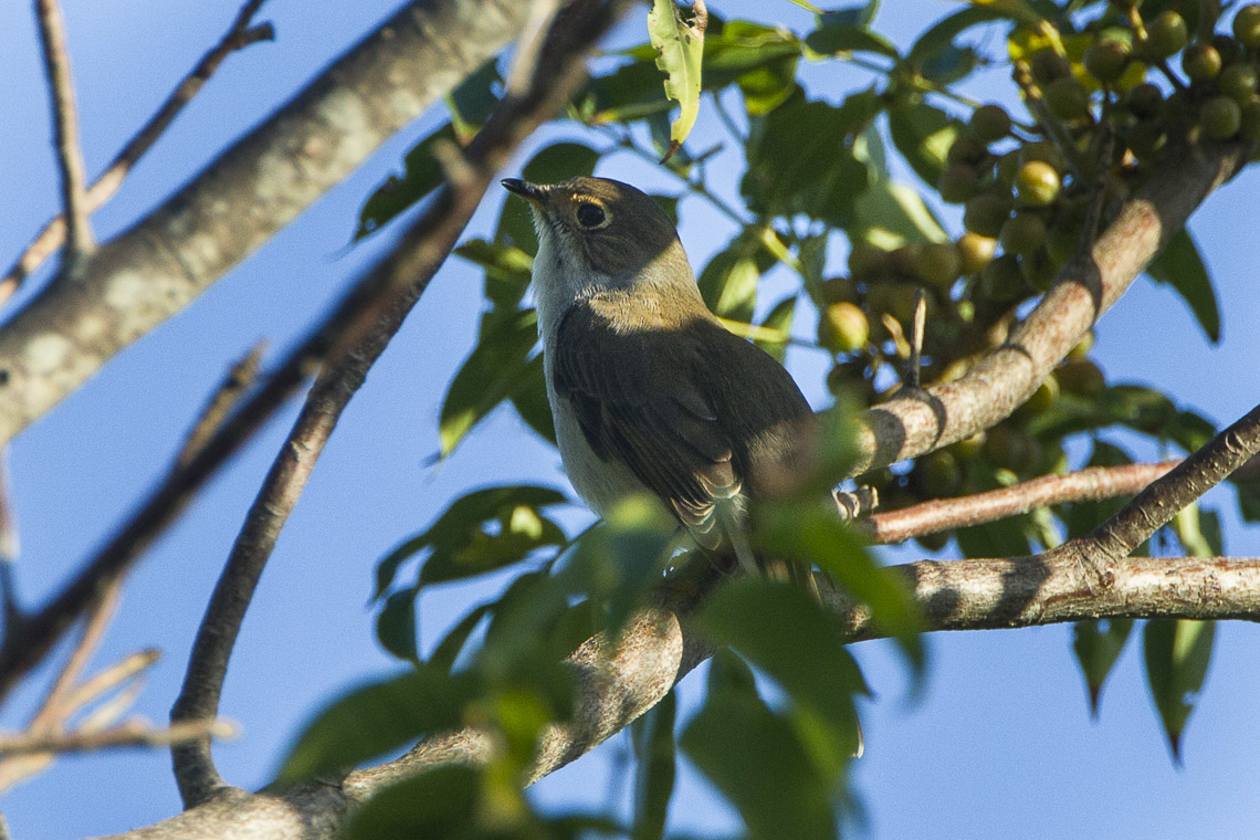 Cuban Solitaire - Cuba_S4E9751